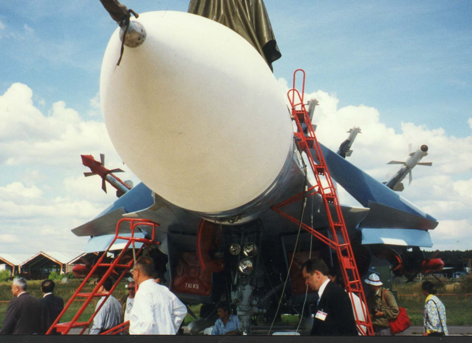 Su-33 frontal view